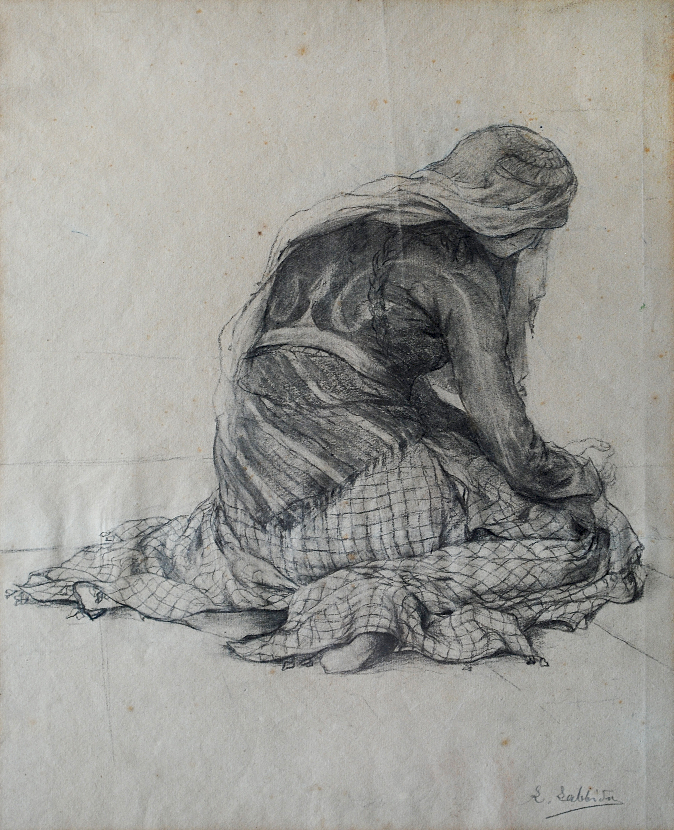 Sabbides Simeon, charcoal and pencil on paper,42 x 32 cm, Private Collection